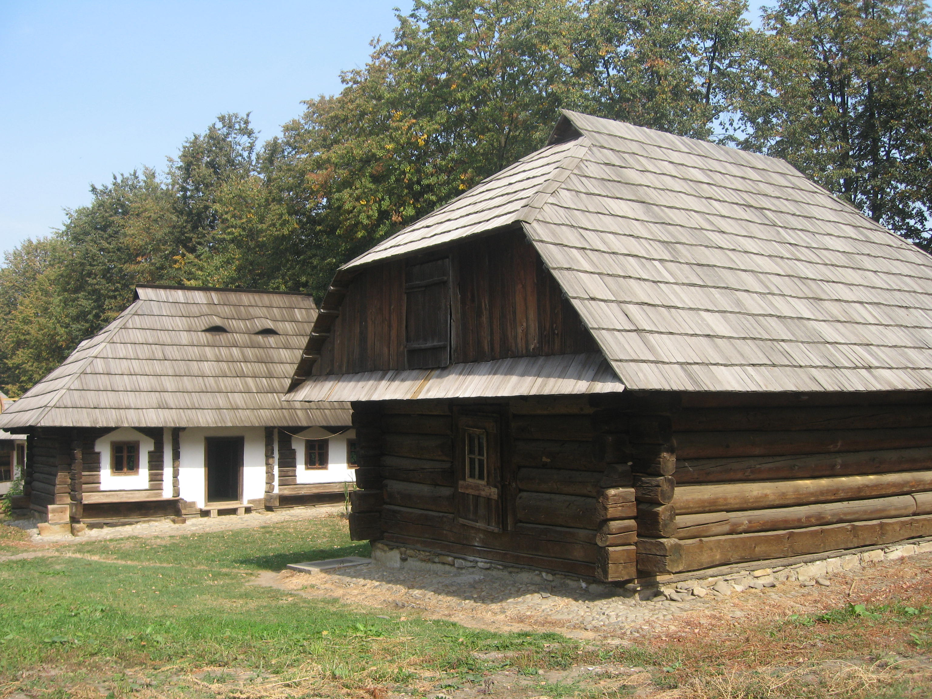 Bukovina Village Museum - The Straja Household (house and stable), Rădăuţi ethnographic area.